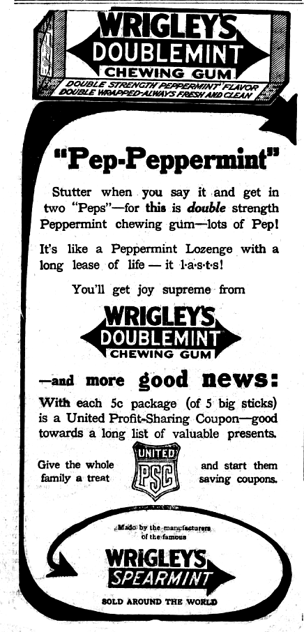 Newspaper ad for Wrigley's Doublemint Gum published in 1914.